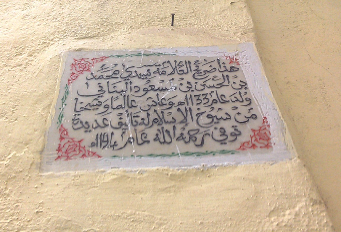 Inscription on Tomb Exterior of al Banani